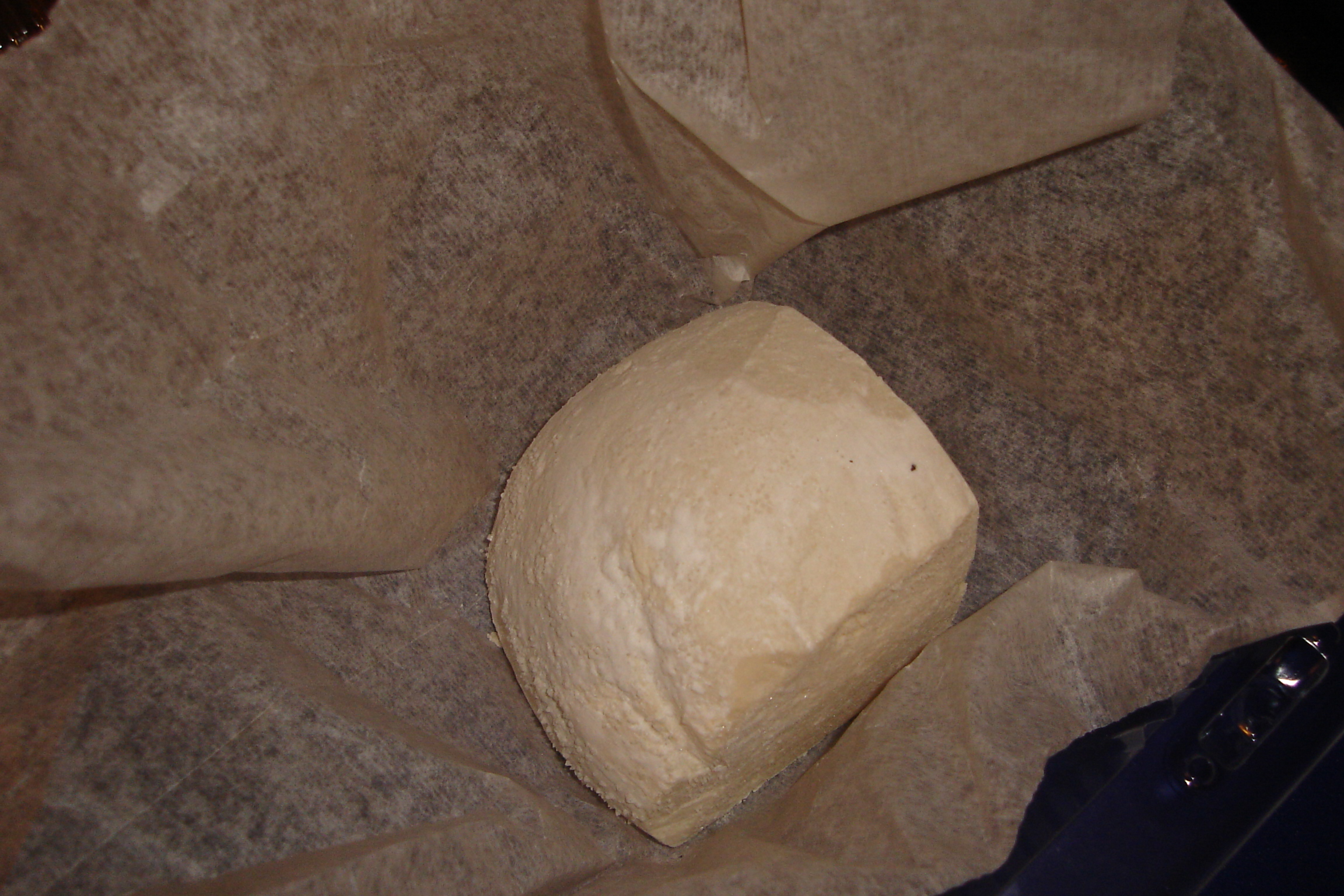 birthday score! gift certificate haul from mass ave wine shoppe